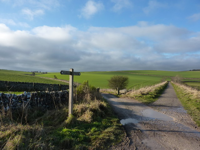 Footpath crossing High Peak Trail